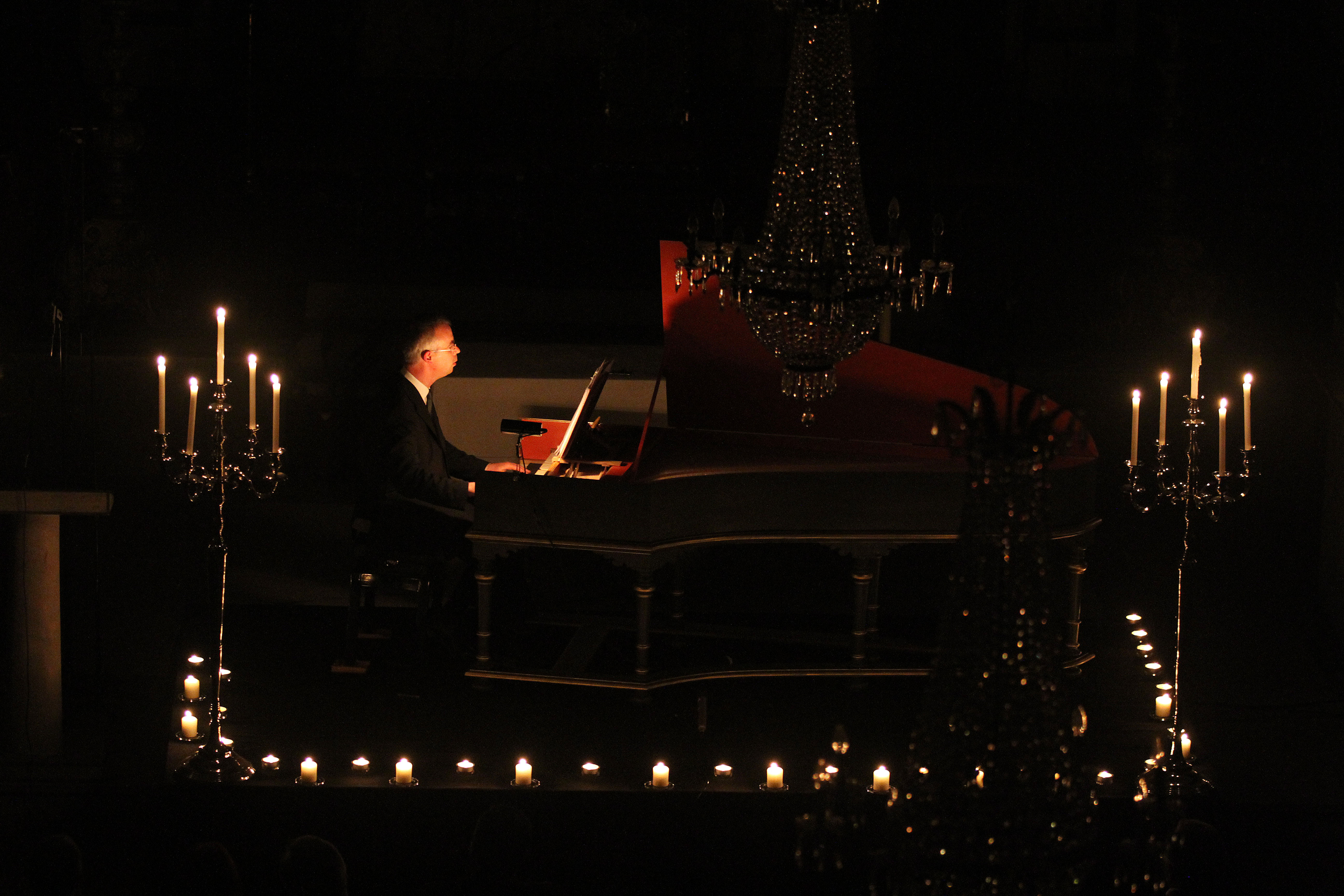 P Hantaï